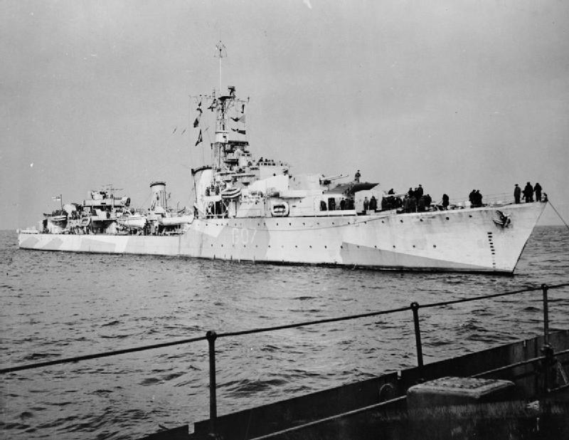 The Canadian Tribal class destroyer HMCS Athabaskan (G07).